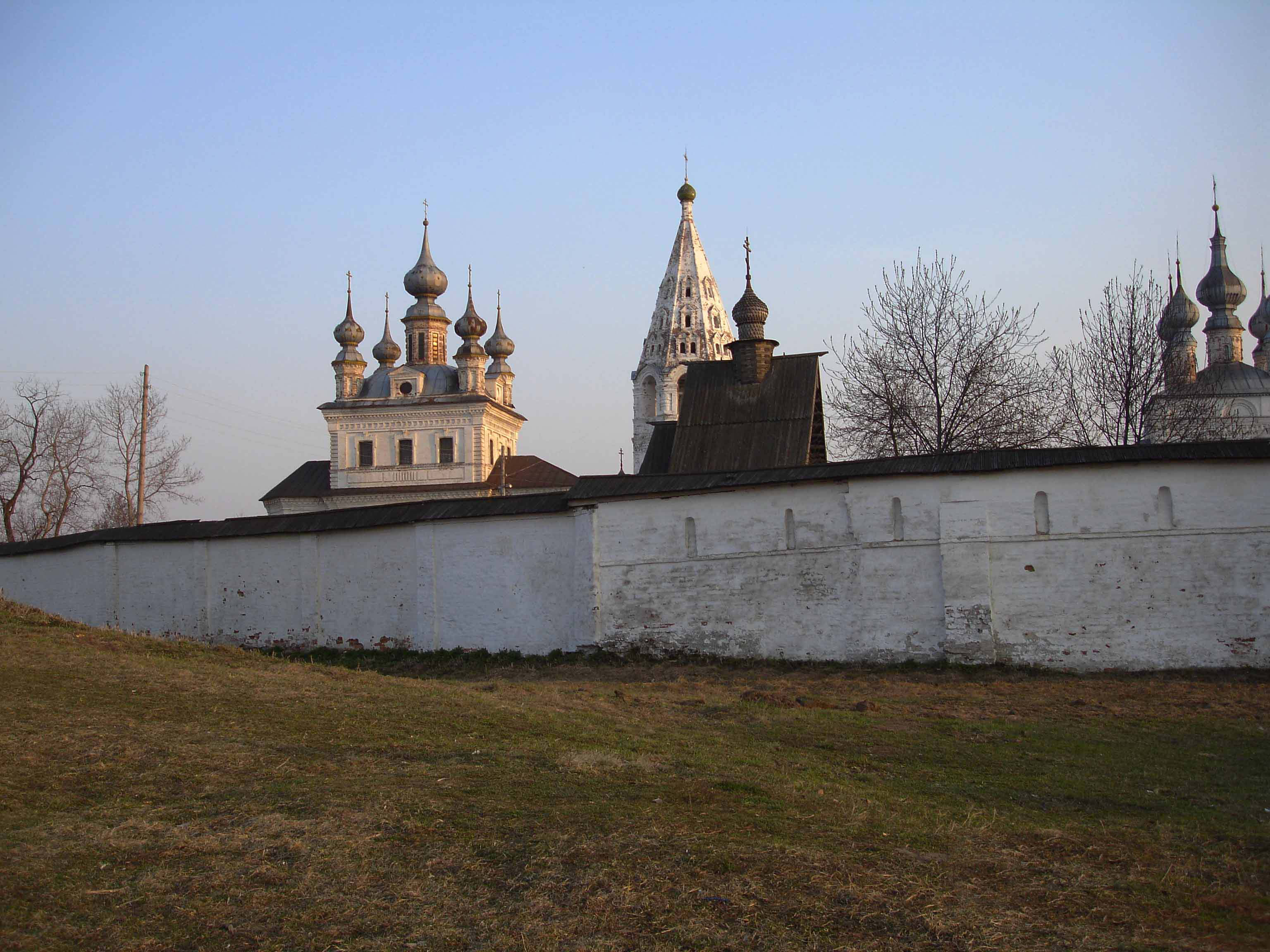 St Michael the Archangel Monastery in Yuriev-Polsky